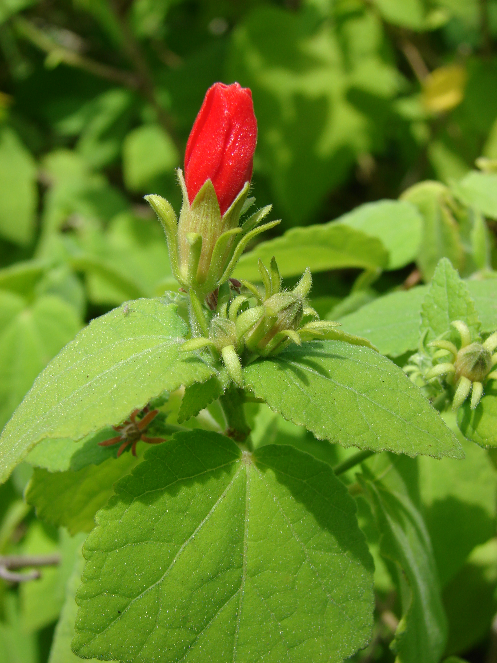 Malvaviscus arboreus (flower and leaves). Location: Maui, Enchanting Gardens of Kula